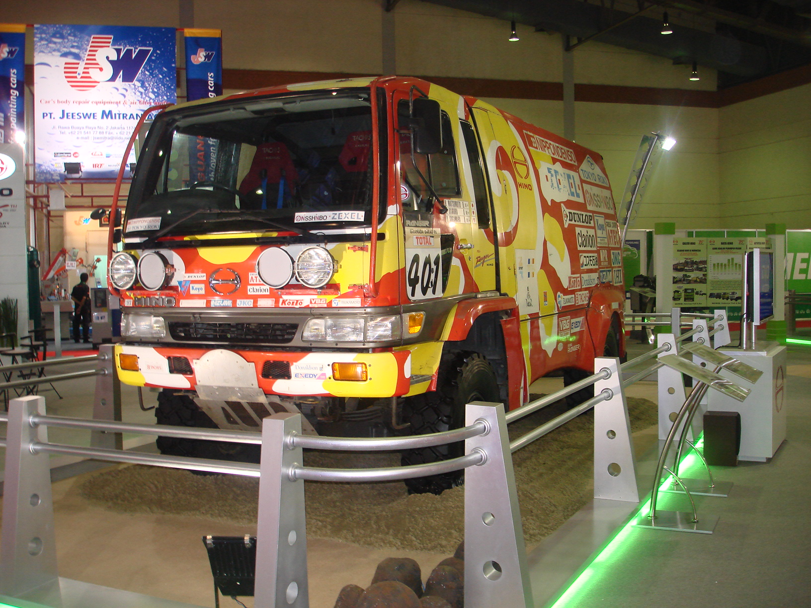 Hino Ranger FT 4WD 1996 Dakar Rally Winner displayed at 2007 Indonesia International Motor Show